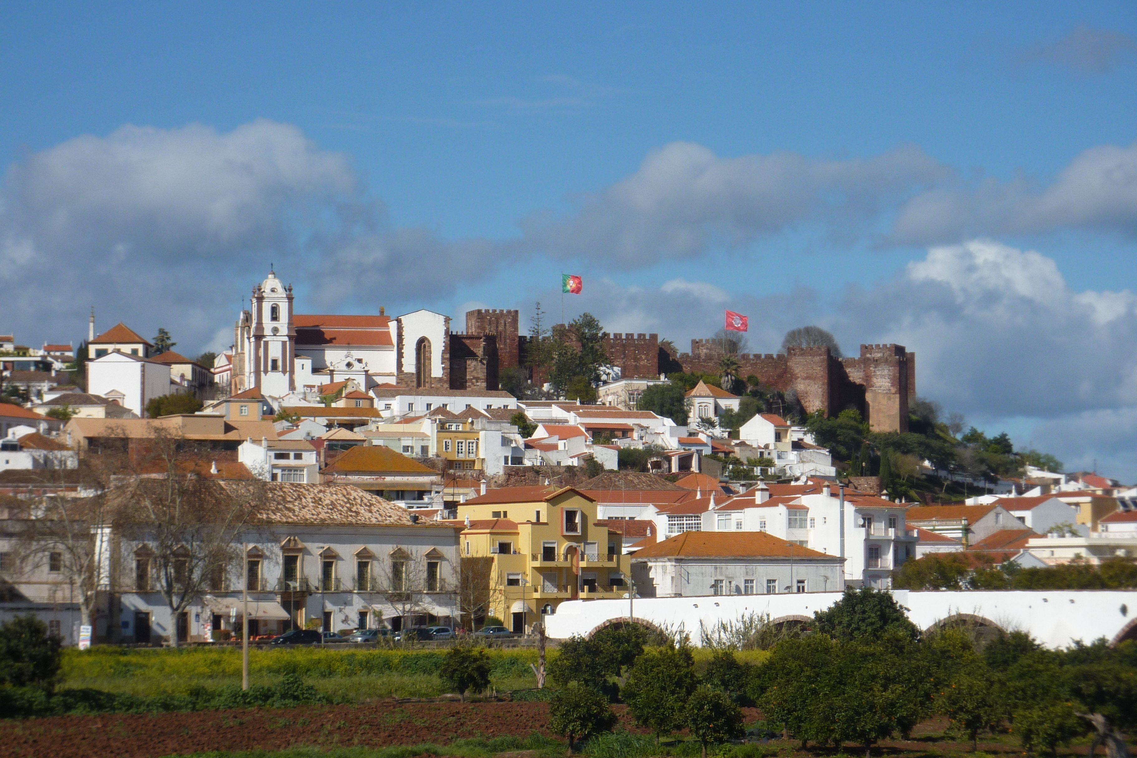 Algarve - Silves - view of the town